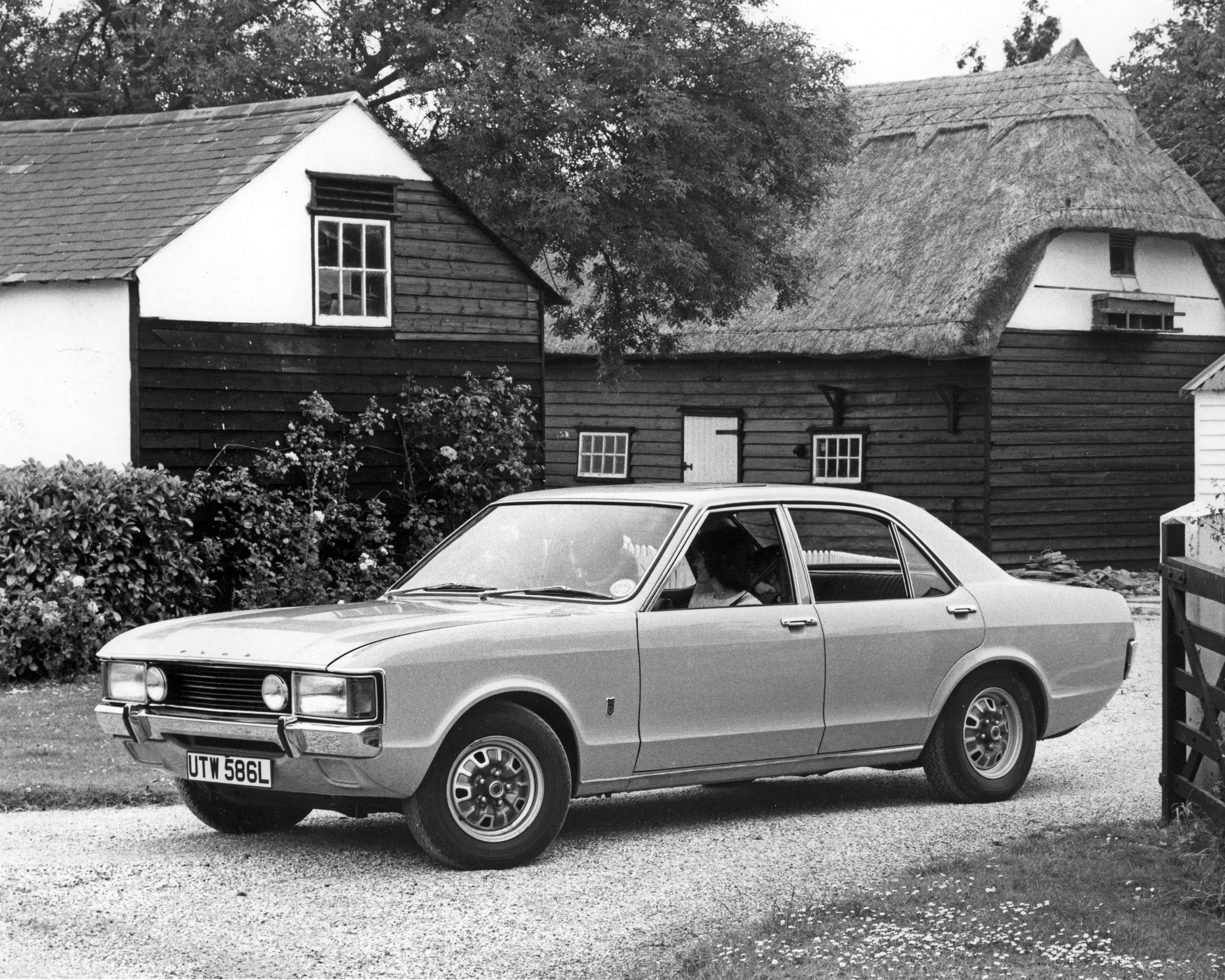 1972 Ford Consul 3000 GT RHD